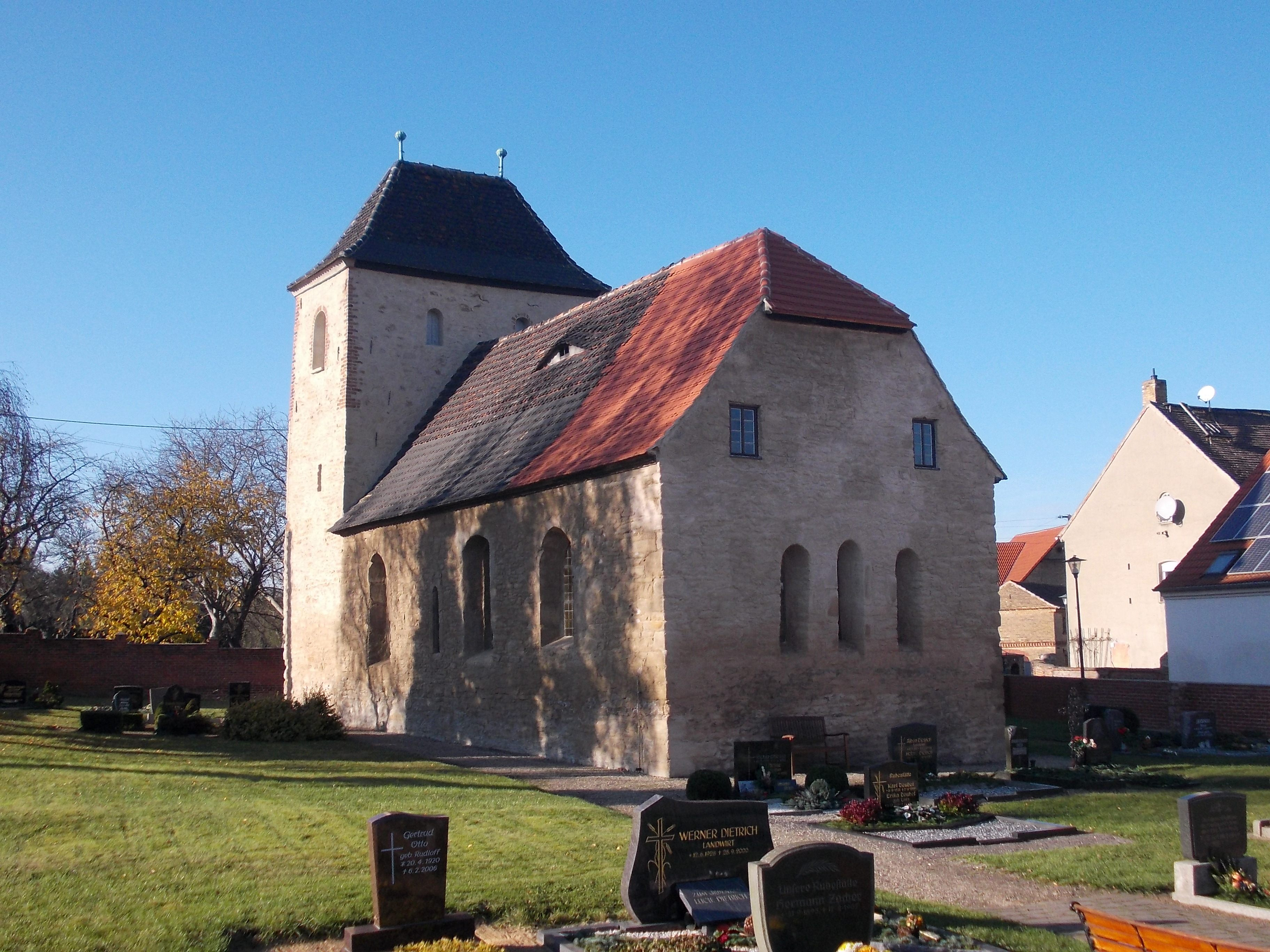 St. Dionysius Church in Atzendorf (Merseburg, district: Saalekreis, Saxony-Anhalt)